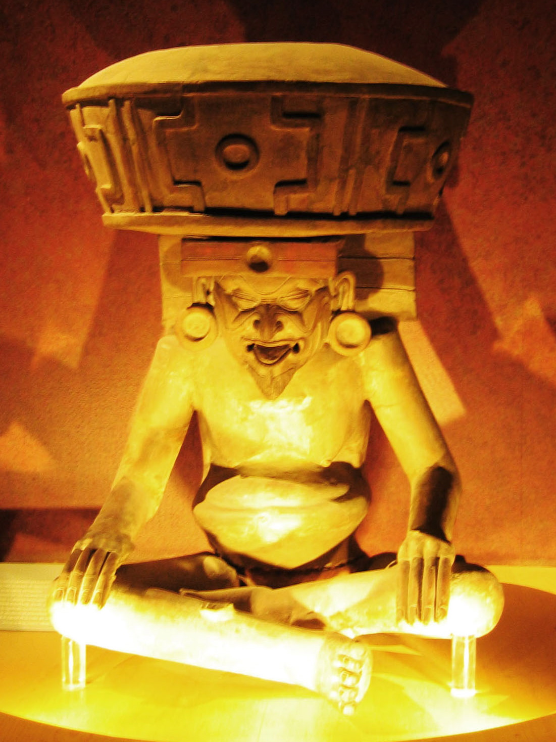 Huehuetéotl, the aged god of fire of the prehispanic pantheon. Museo Nacional de Antropología, Mexico City.